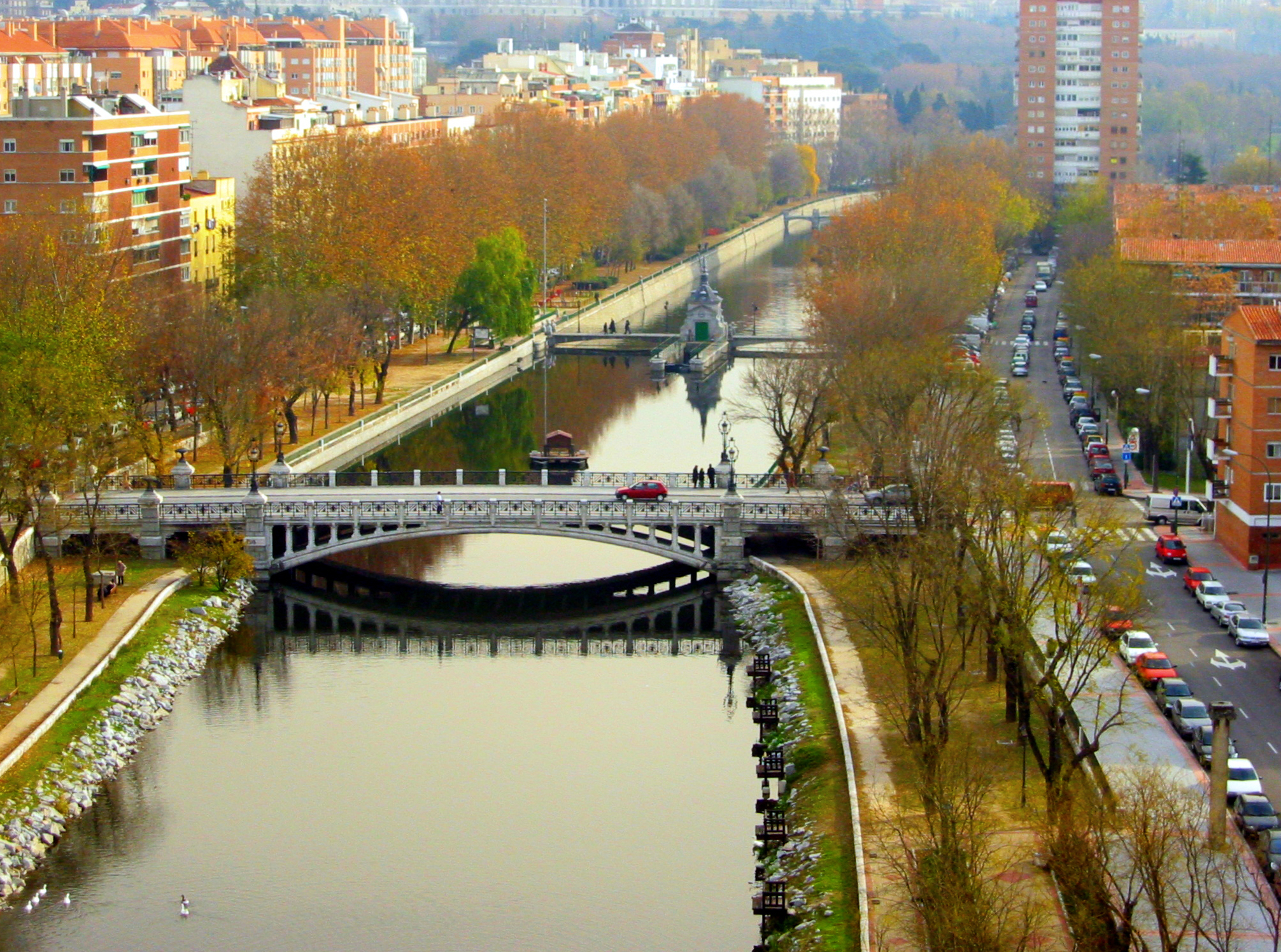 River Manzanares in Madrid (Spain).